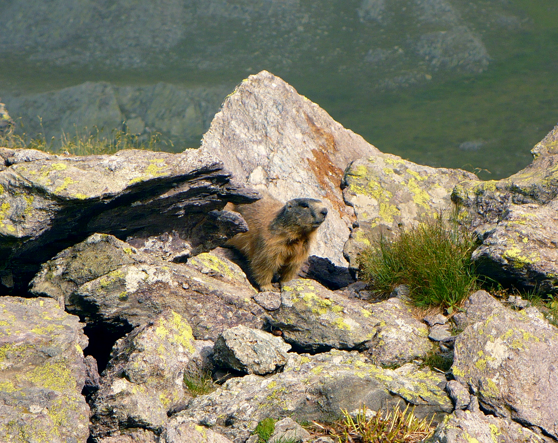 Alpine Marmot seen near Tagliaferri hut